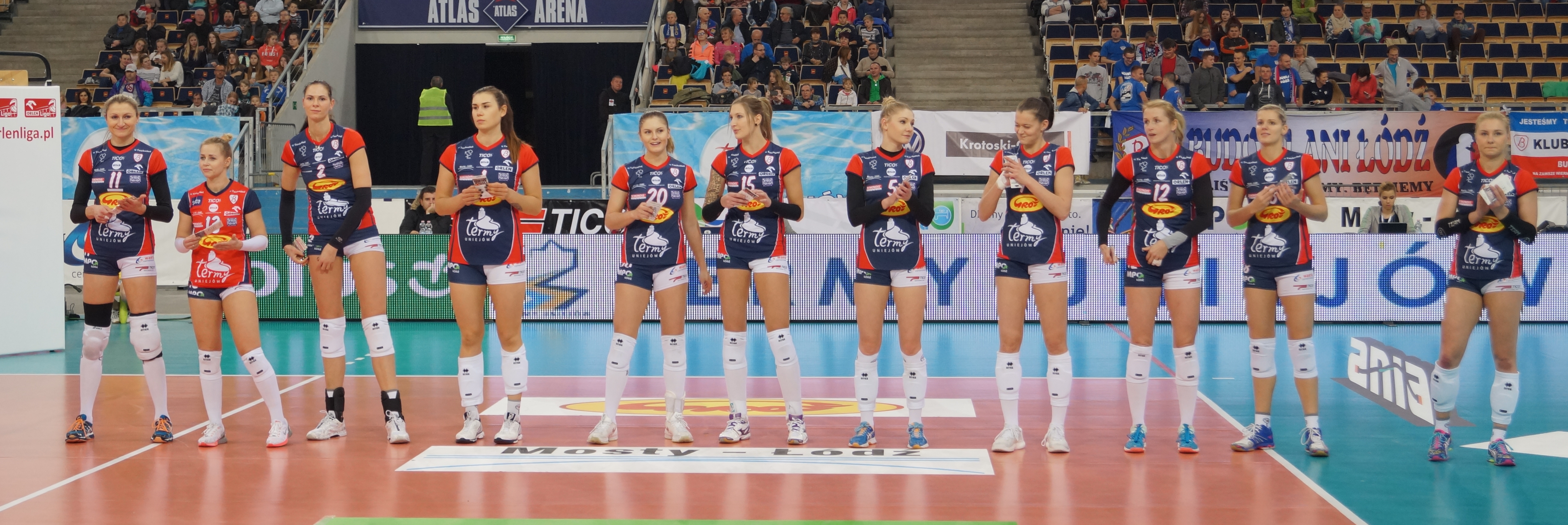 Budowlani Łódź 2016-2017